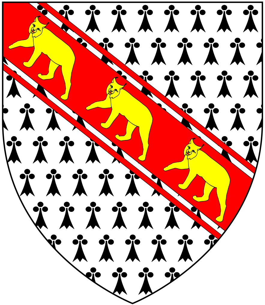 Arms of Cooke of Thorne in the parish of Ottery St Mary, Devon: Ermine, on a bend cotised gules three cats-a-mountain passant guardant or (Vivian, Lt.Col. J.L., (Ed.) The Visitations of the County of Devon: Comprising the Heralds' Visitations of 1531, 1564 & 1620, Exeter, 1895, p.222; Pole, Sir William (d.1635), Collections Towards a Description of the County of Devon, Sir John-William de la Pole (ed.), London, 1791, p.476, with cats argent)